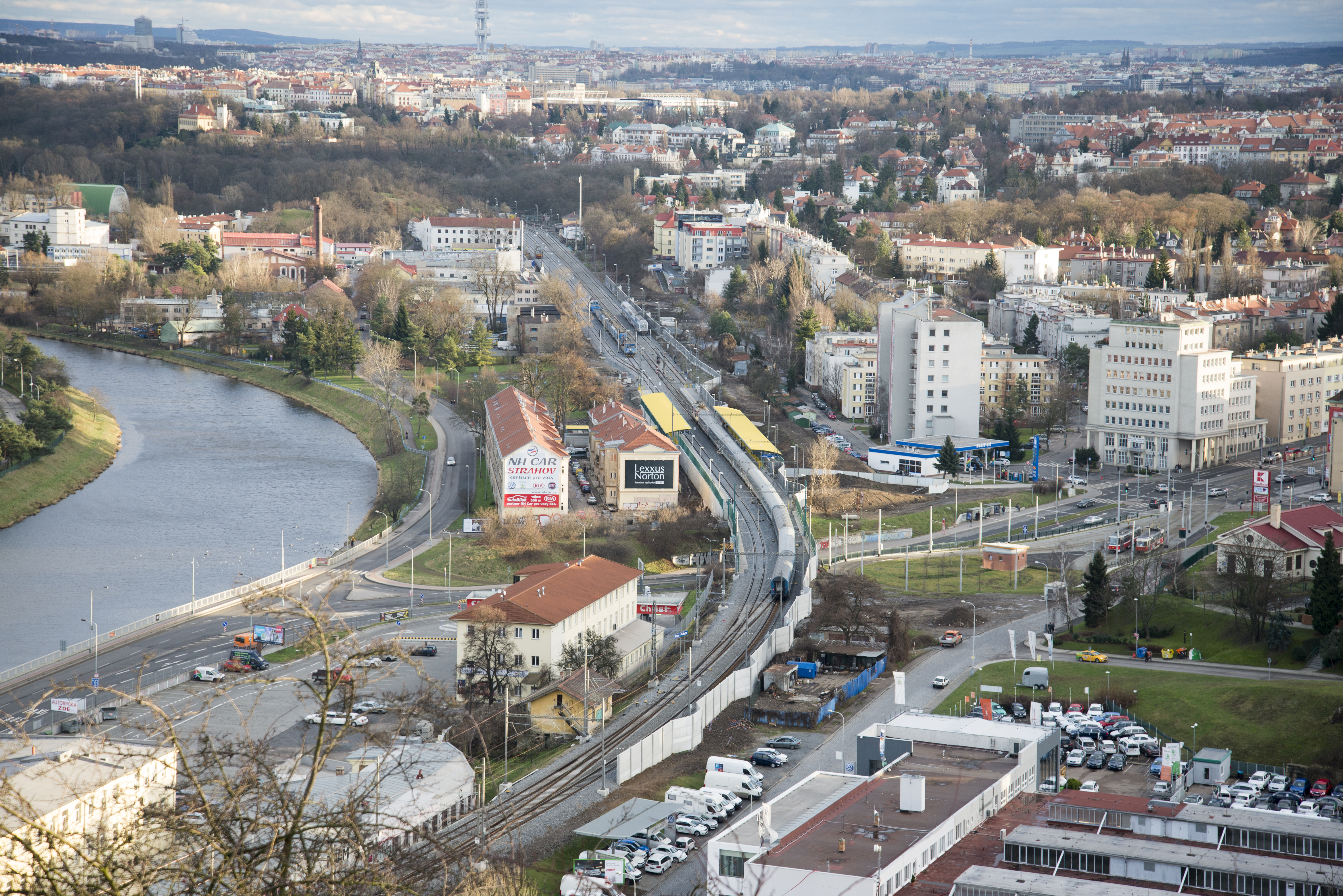 Train stop Praha-Podbaba - view from Baba ruins